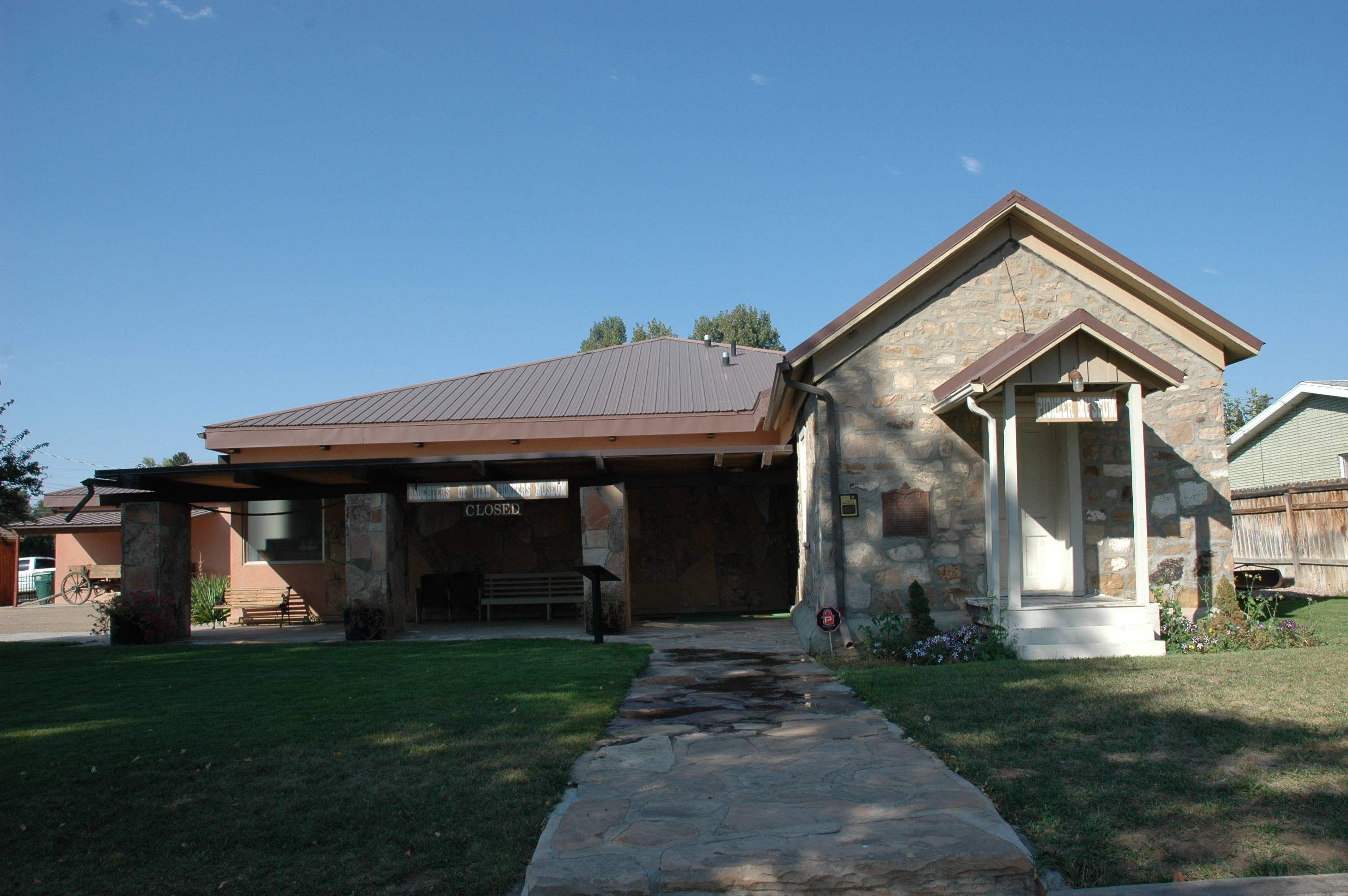 The Vernal Tithing Office, a historic building in Vernal, Utah, United States.